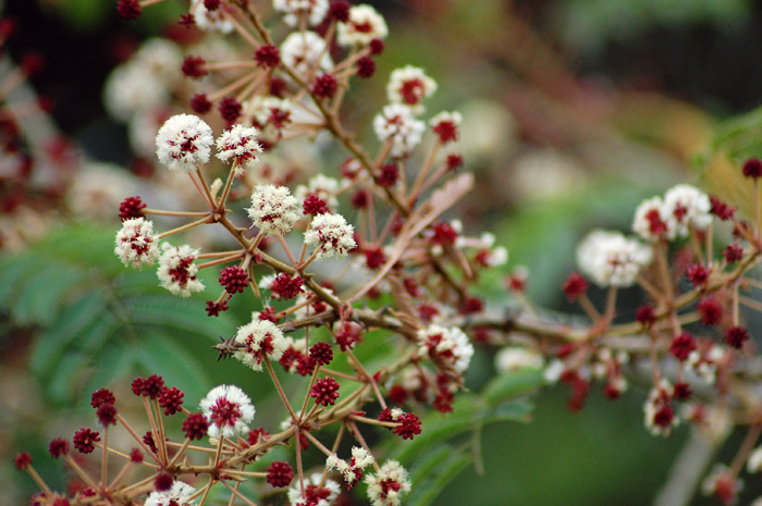 Flowers of Acacia concinna.